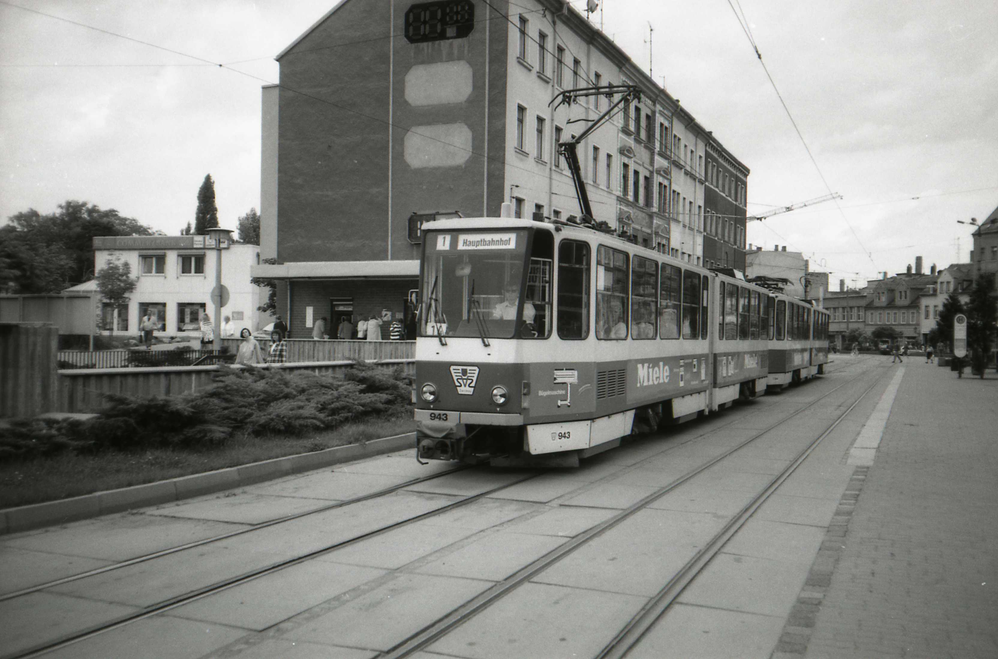 There is a large digital clock on the side of the block above the tram. Not sure whether it was working at the time of the picture or whether I caught it between flashes with temperature. Tram no 943 leading , Route 1 Eckersbach to Hauptbahnhof. KT4D series trams, four axle articulated units. Here paired. The livery used on these trams nos 927-949 is now mainly white with a lot less red relief. In 2008 , the SVZ (Städtischen Verkehrsbetriebe Zwickau) handed over its operations to the Regionalverkehrsbetriebe Westsachsen GmbH (Rhenus Veniro-Gruppe). Zwickau has a 1000mm system. Originally there were 32 KT4Ds bought in the late 1980s but with exchange between Zwickau and Plauen, 24 remain.